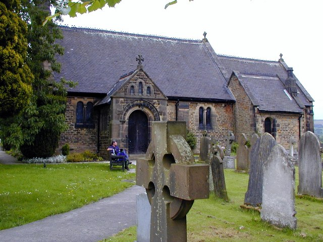 St Katherine's parish church, Rowsley, Derbyshire, seen from the southwest